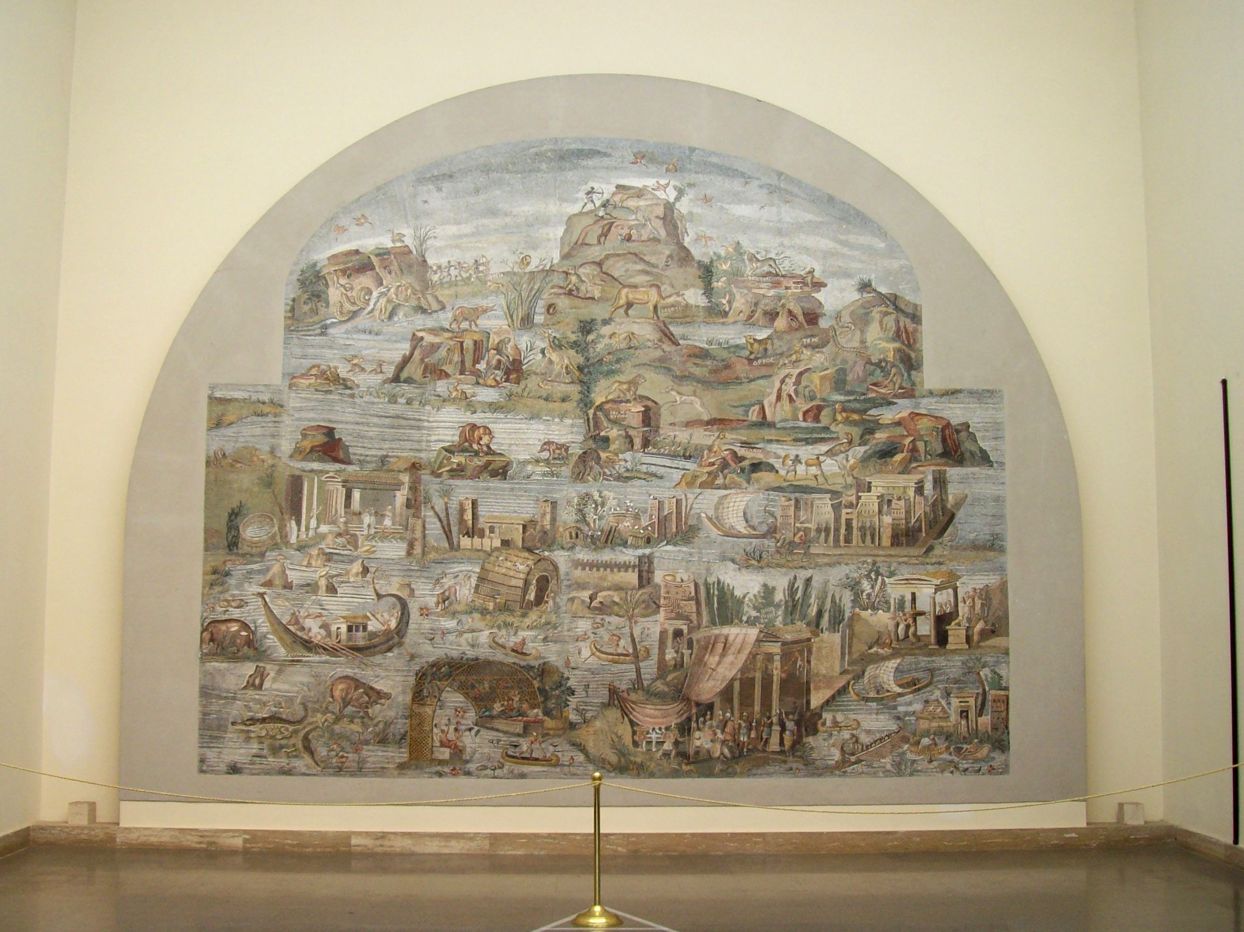 Nile mosaic at the Archaeologic Museum in Palestrina